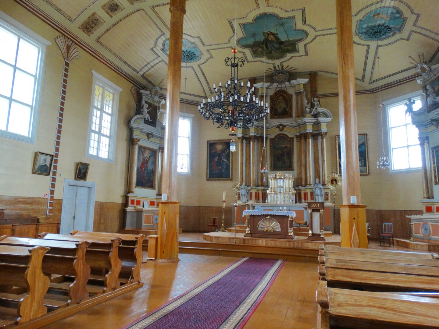 Interior, Catholic church, Kuktiškės, Utena district, Lithuania